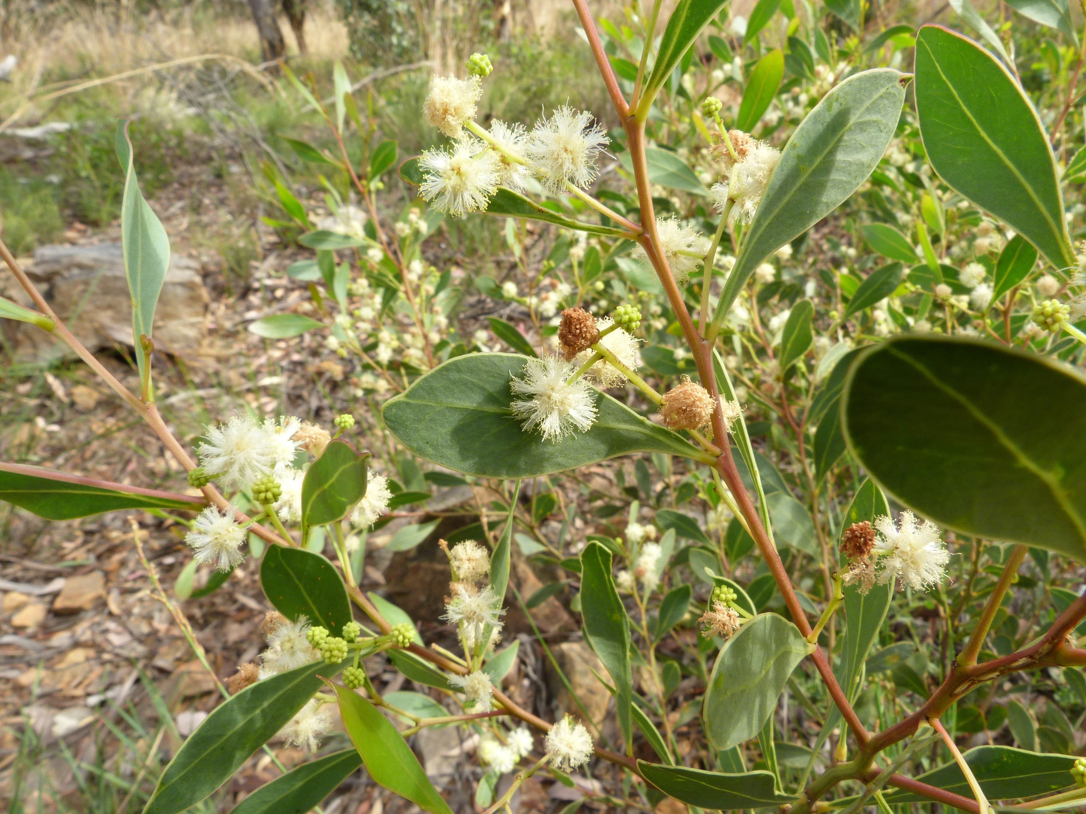 Acacia penninervis Sieber ex DC., Black Mountain, Canberra, ACT, 18 January 2011 Low shrubs, phyllodes variable, broad, rounded or pointed, with main vein and margins pale; flowers pale yellow